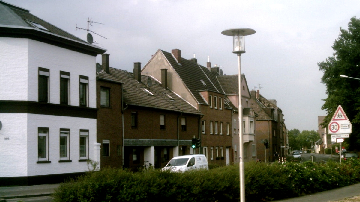 The street Krefelder Straße in Hülsdonk, Viersen, Germany.